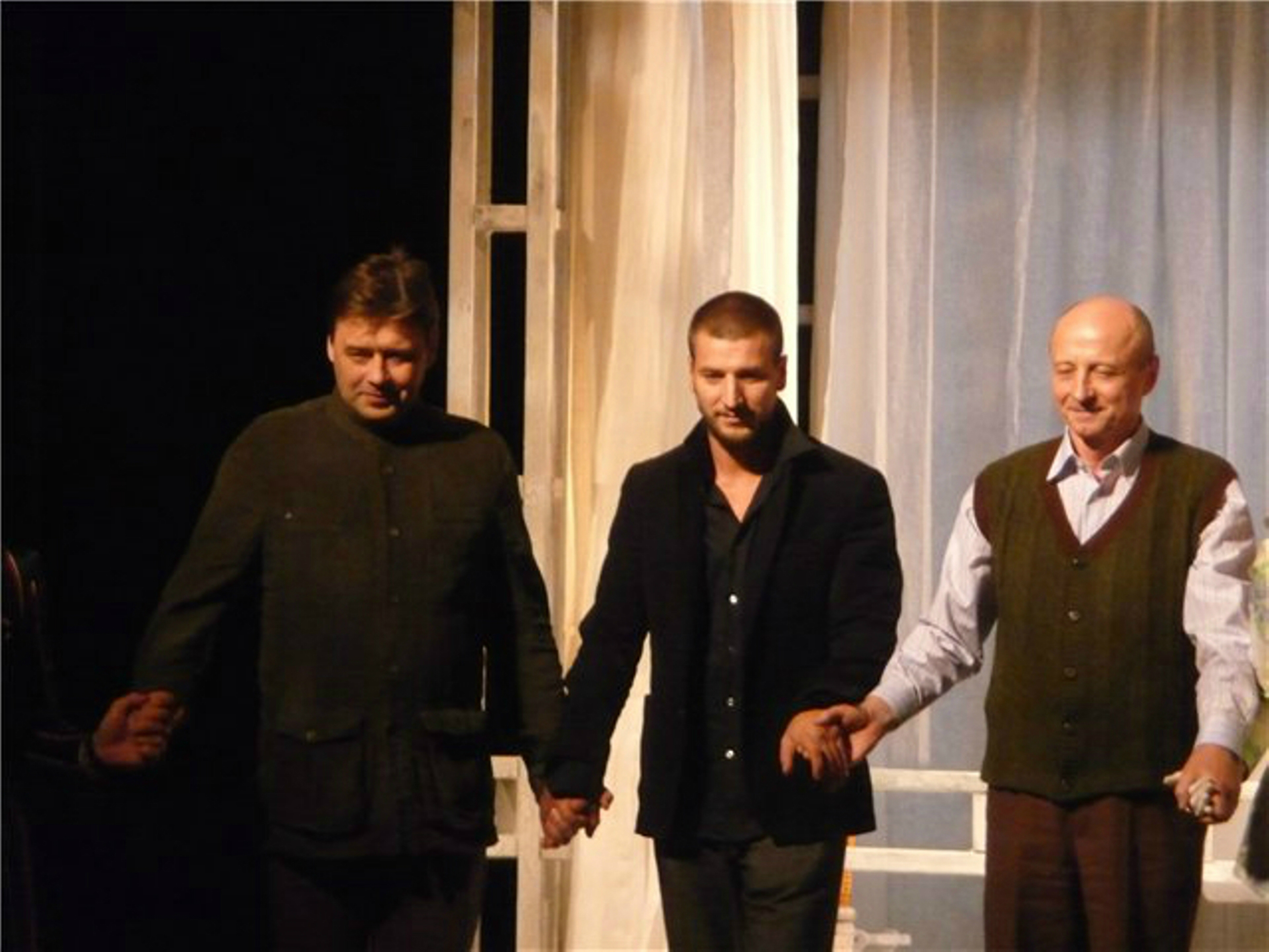 The premiere "Devochki s kalendarya'